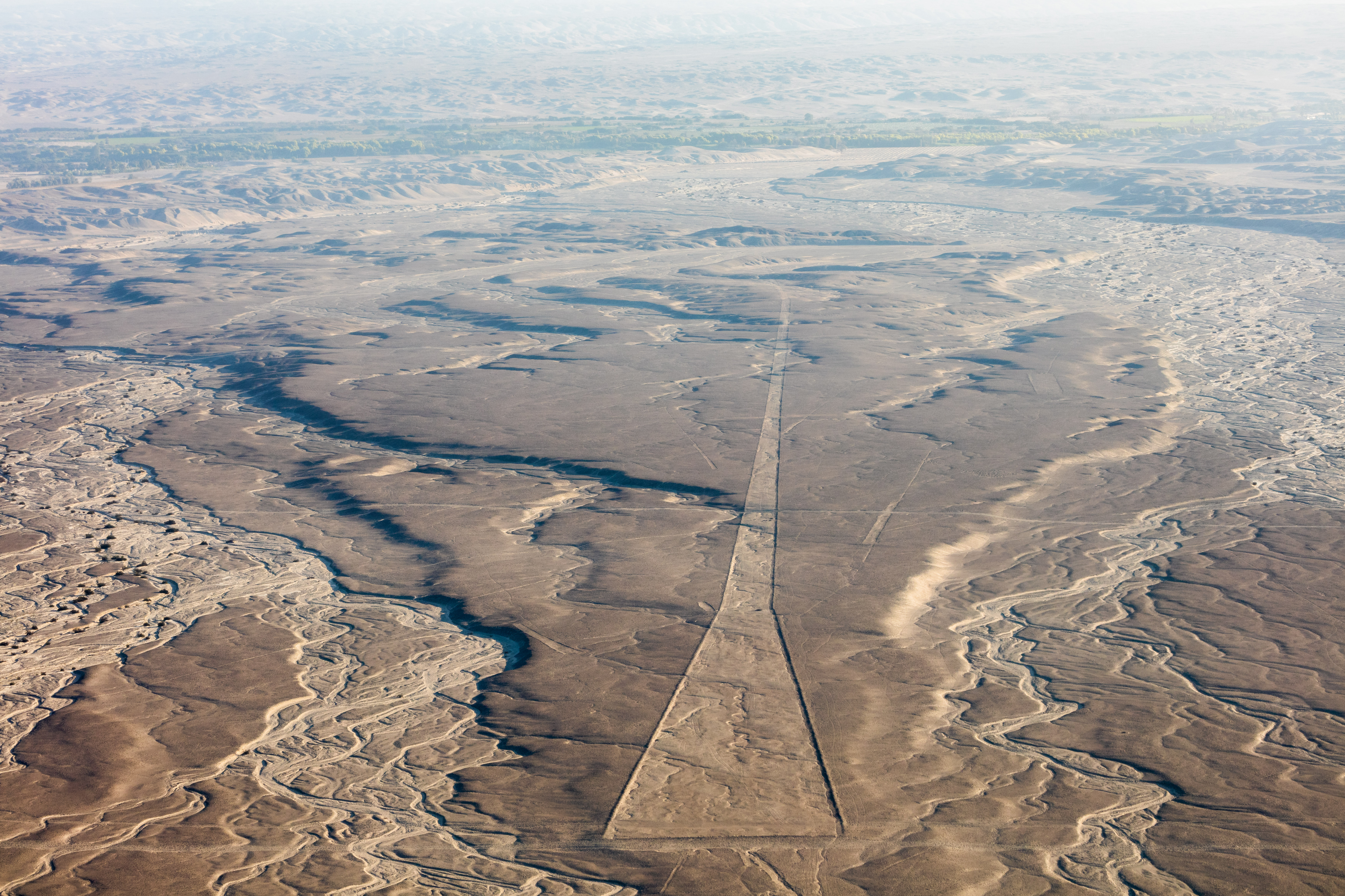 Nazca Lines, Nazca, Peru